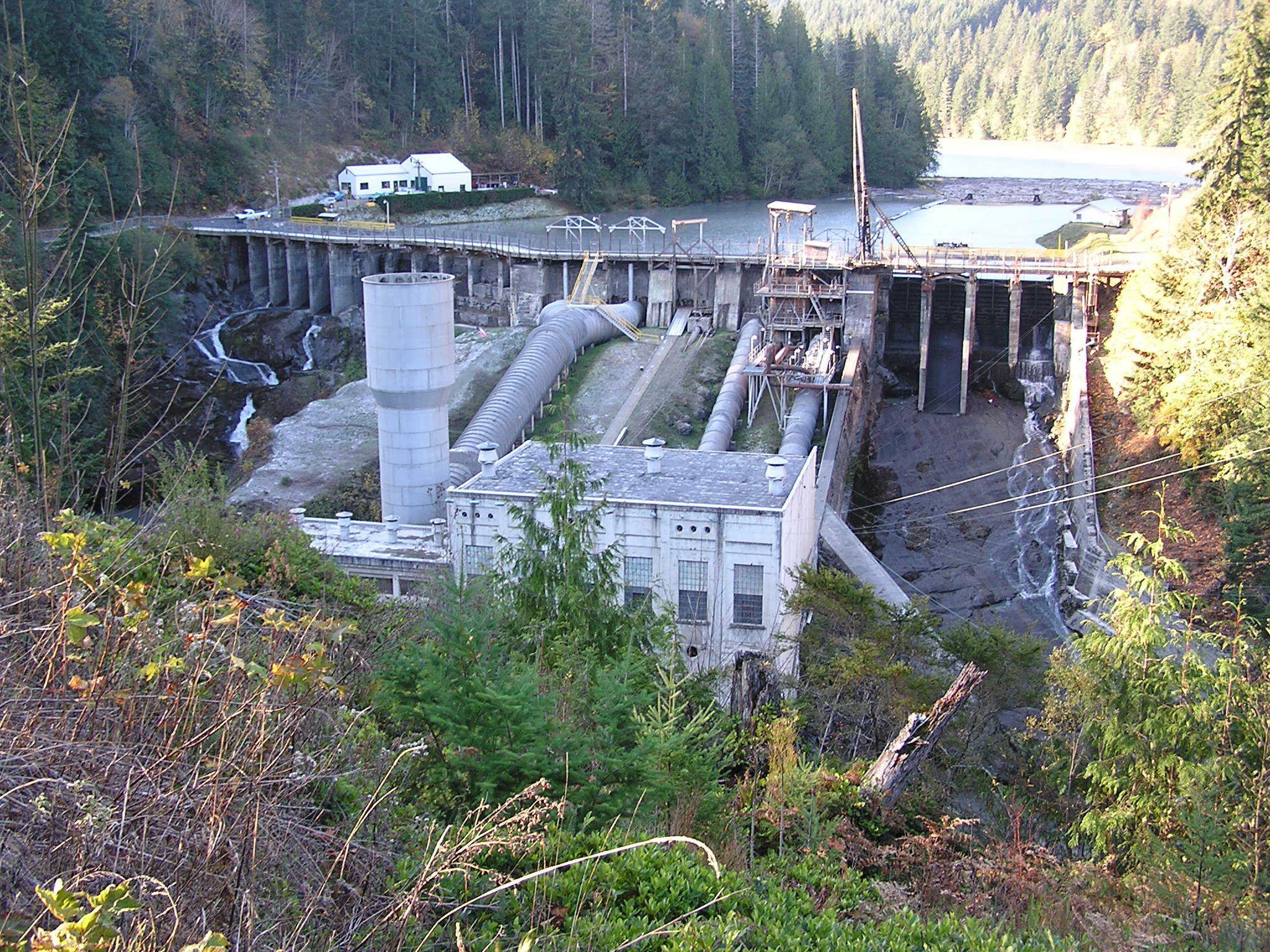 Elwha Dam constructed 1913, slated for demolition 2012. Photo by Larry Ward, Lower Elwha Fisheries Office (2005).